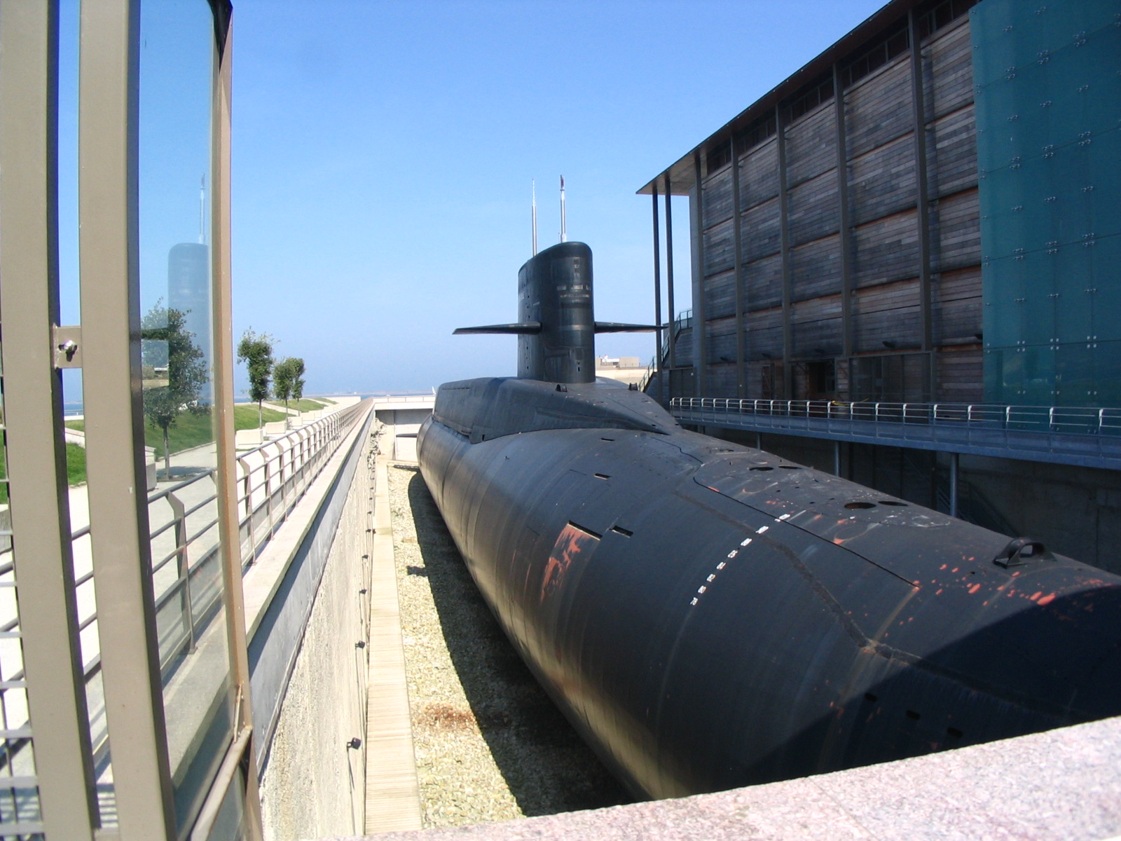 Cherbourg - the french nuclear submarine Le Redoutable - the biggest public accessible nuclear submarine